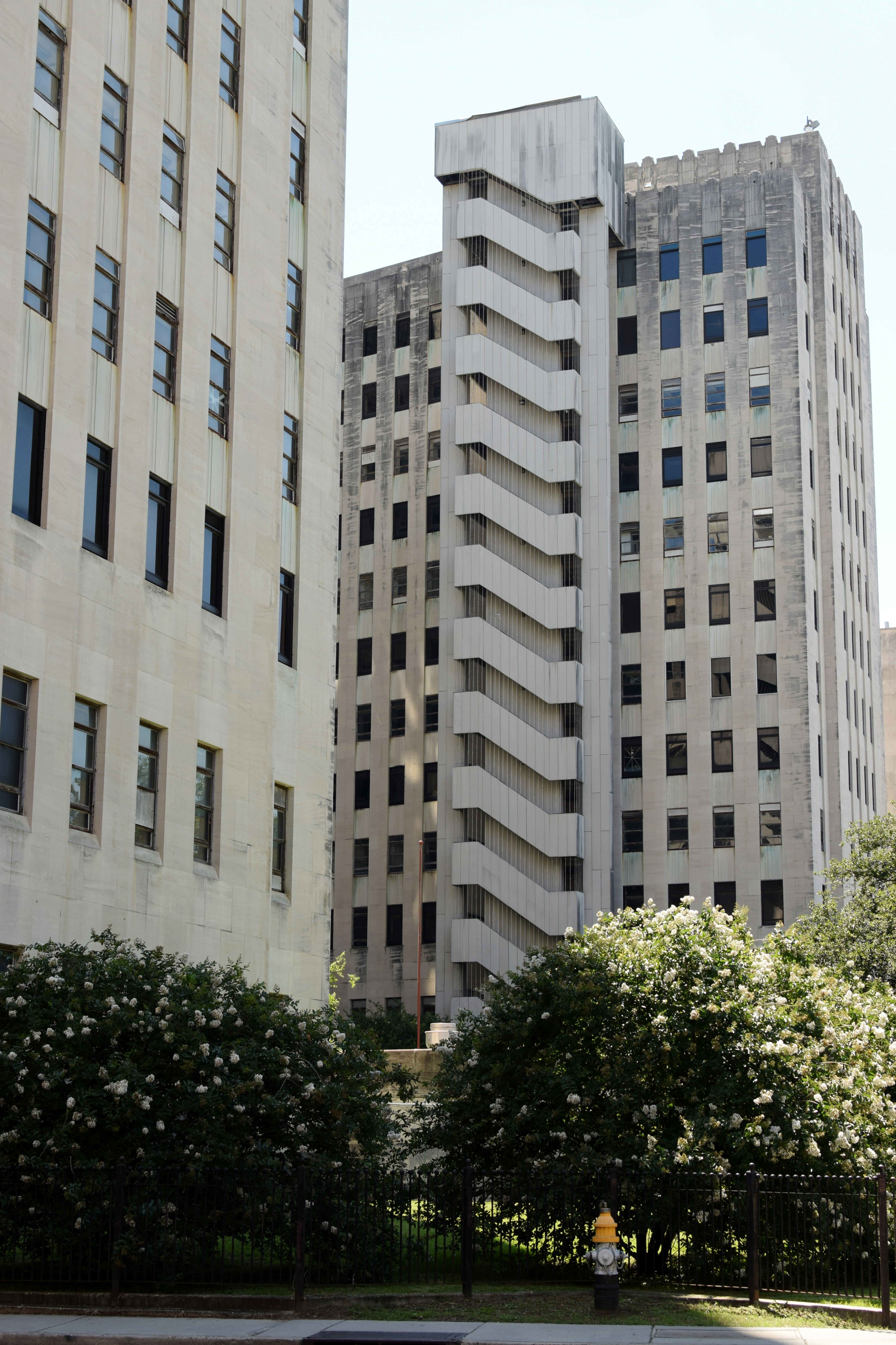 Charity Hospital in New Orleans closed after sustaining damage from Hurricane Katrina